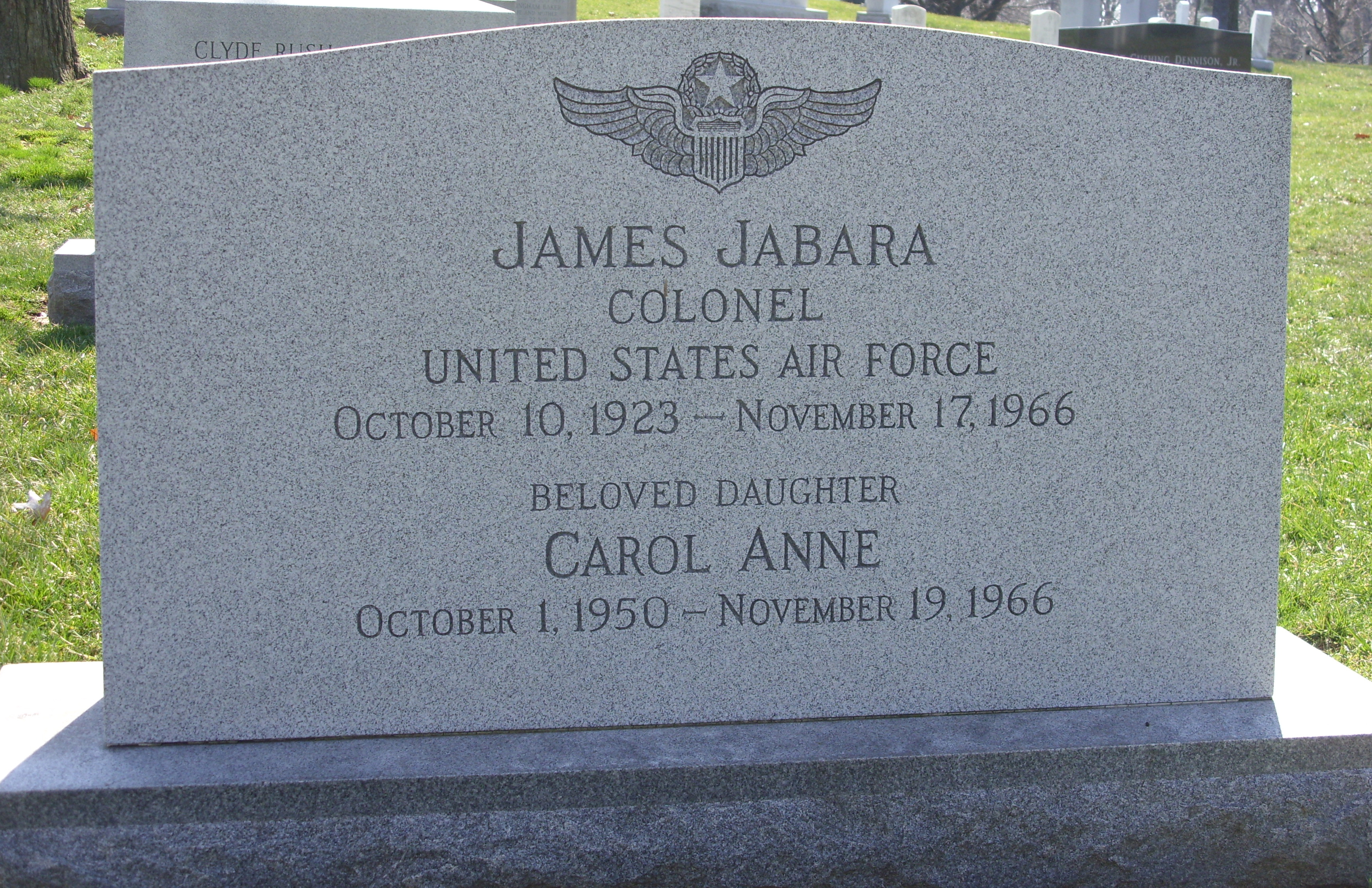 Gravestone of Colonel James Jabara and his daughter Carol Anne, both killed in a car crash in 1966, at the Arlington National Cemetery.